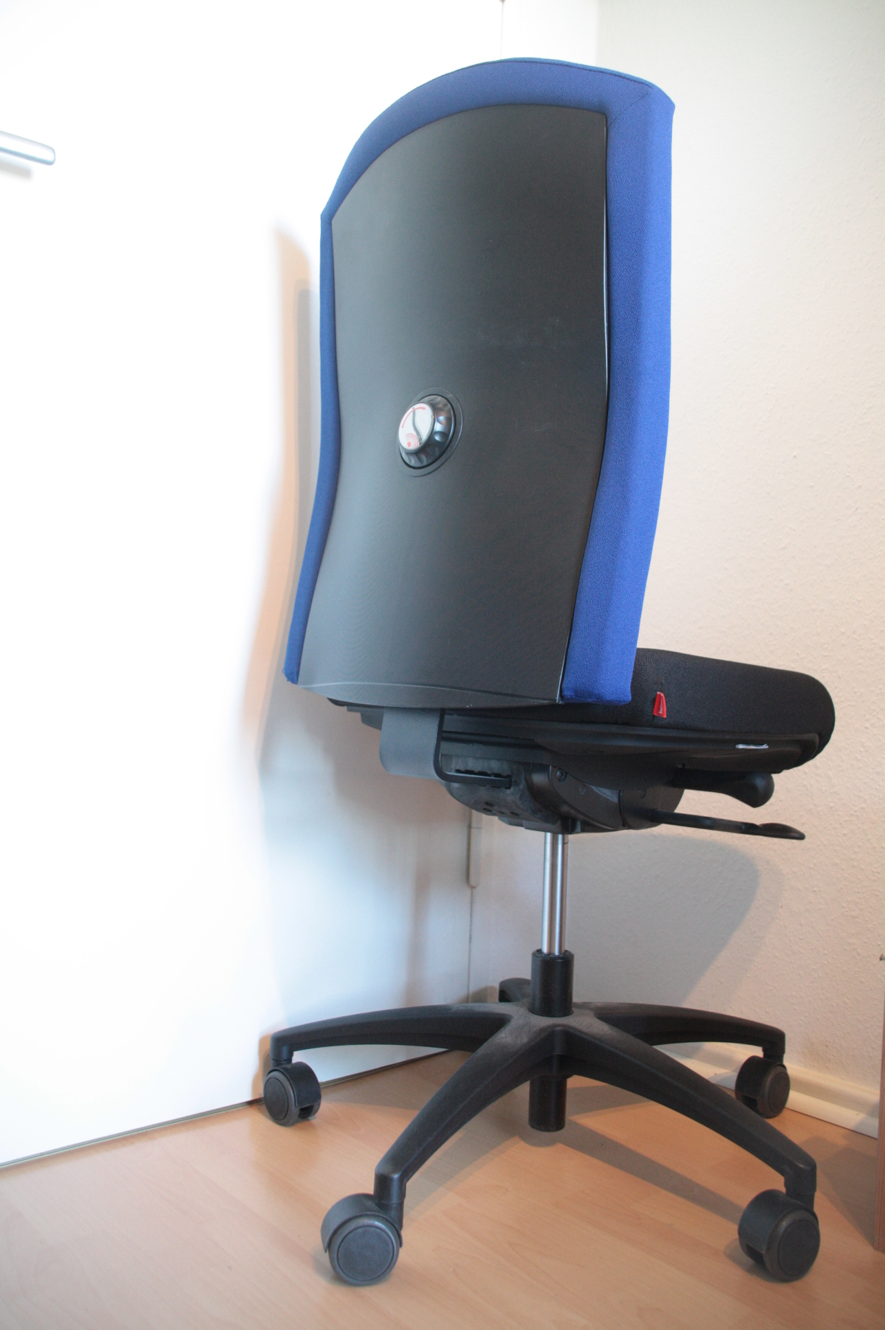 office chair with lumbal support, knob for adjusting strength on the backside